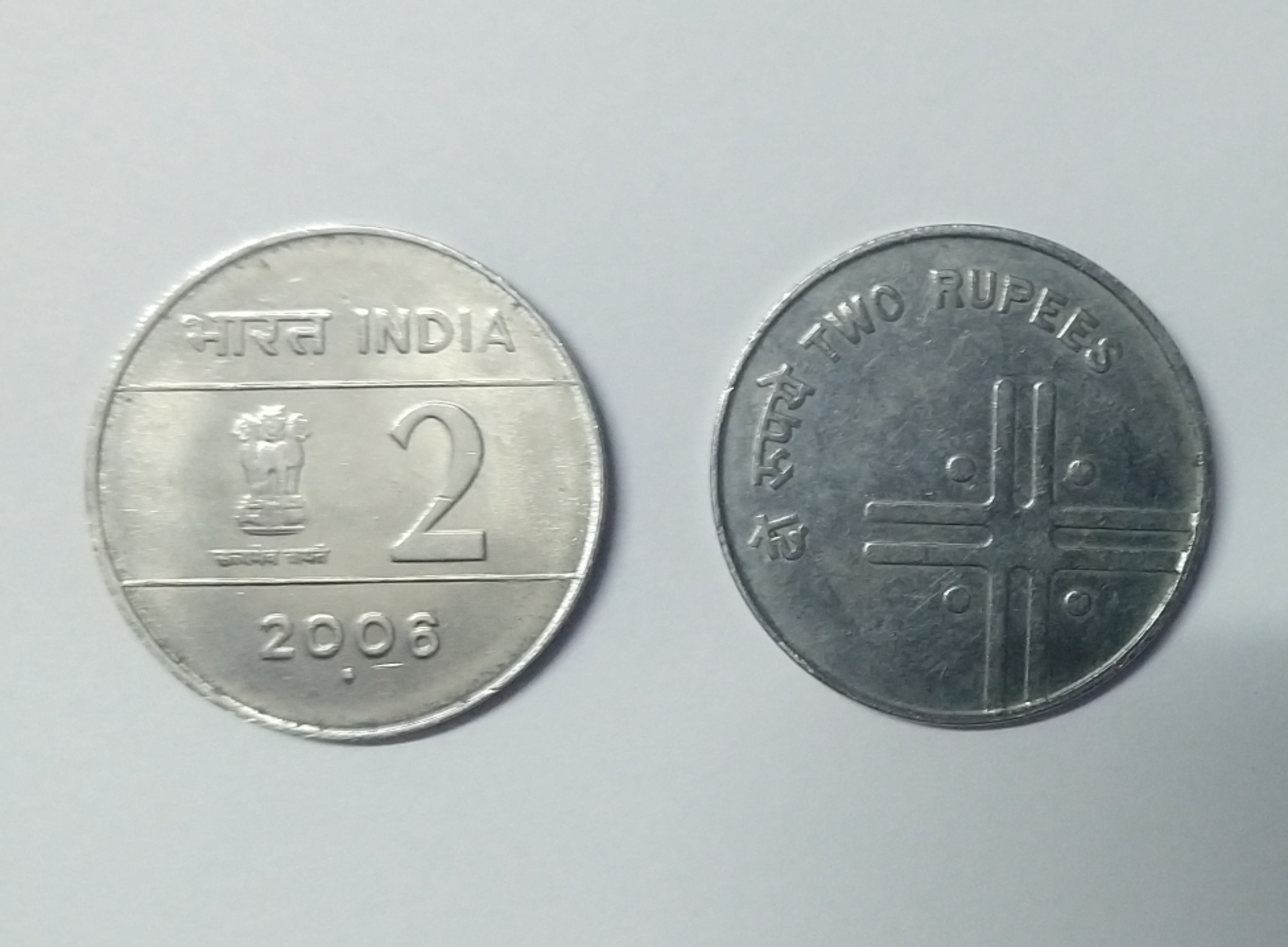 This is an INR 2 coin, minted in the year 2006. The diamond below the year is a mint mark, representing the Mumbai mint.